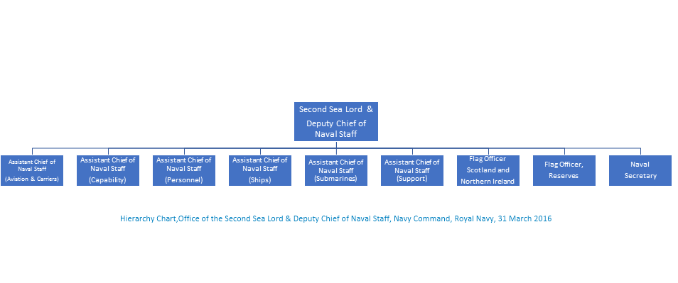 My own work using MS Word Smart and MS Paint based on